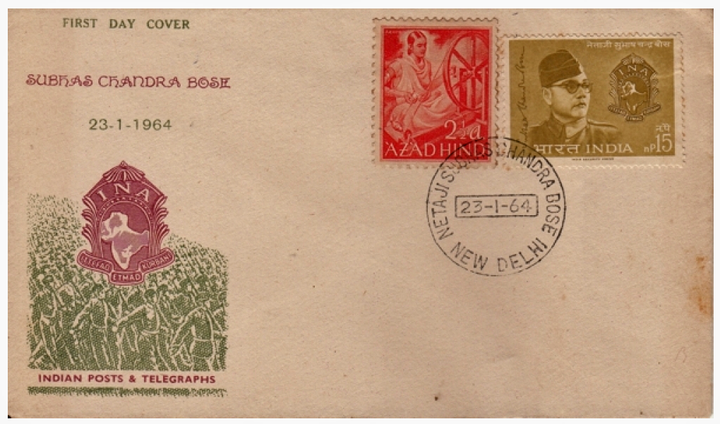 FDC India 1964 with "Azad Hind" stamp (produced in Germany in 1943) added to a Subhas Chandra Bose stamp